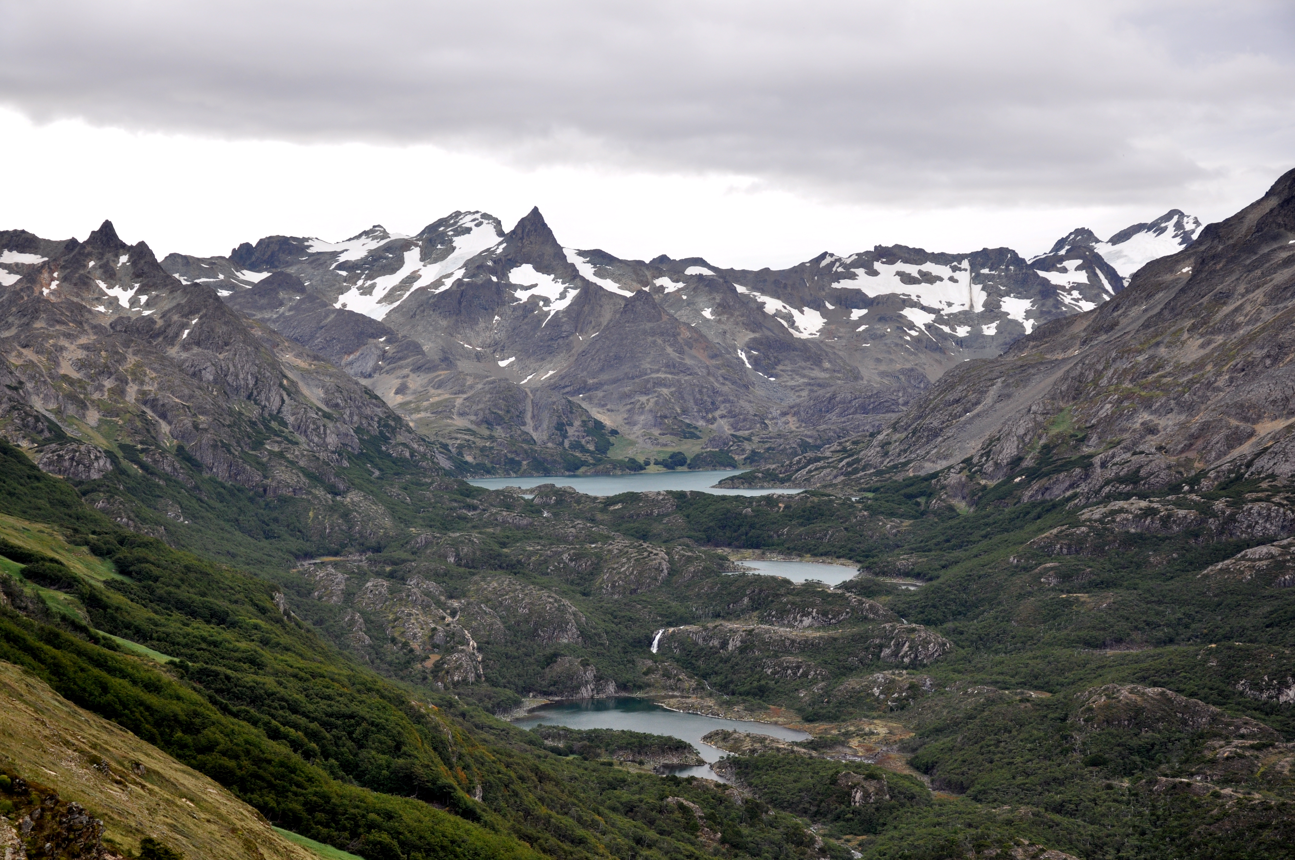 Escalonadas Lakes, Tierra del Fuego National Park, Argentina